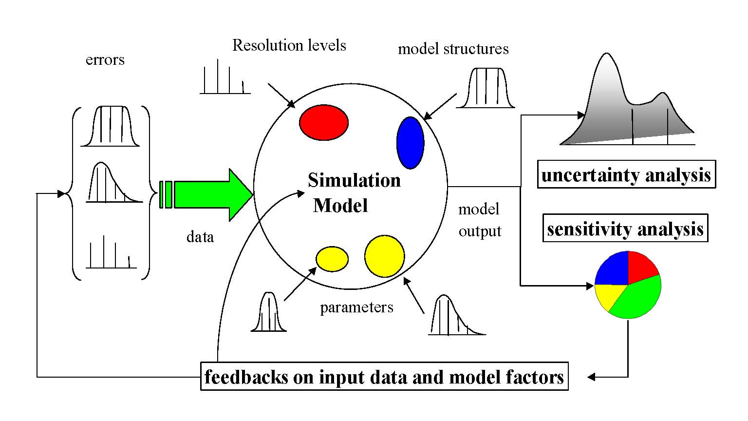 Scheme for sensitivity analysis